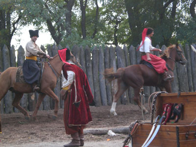 Hortiza Cossack theater